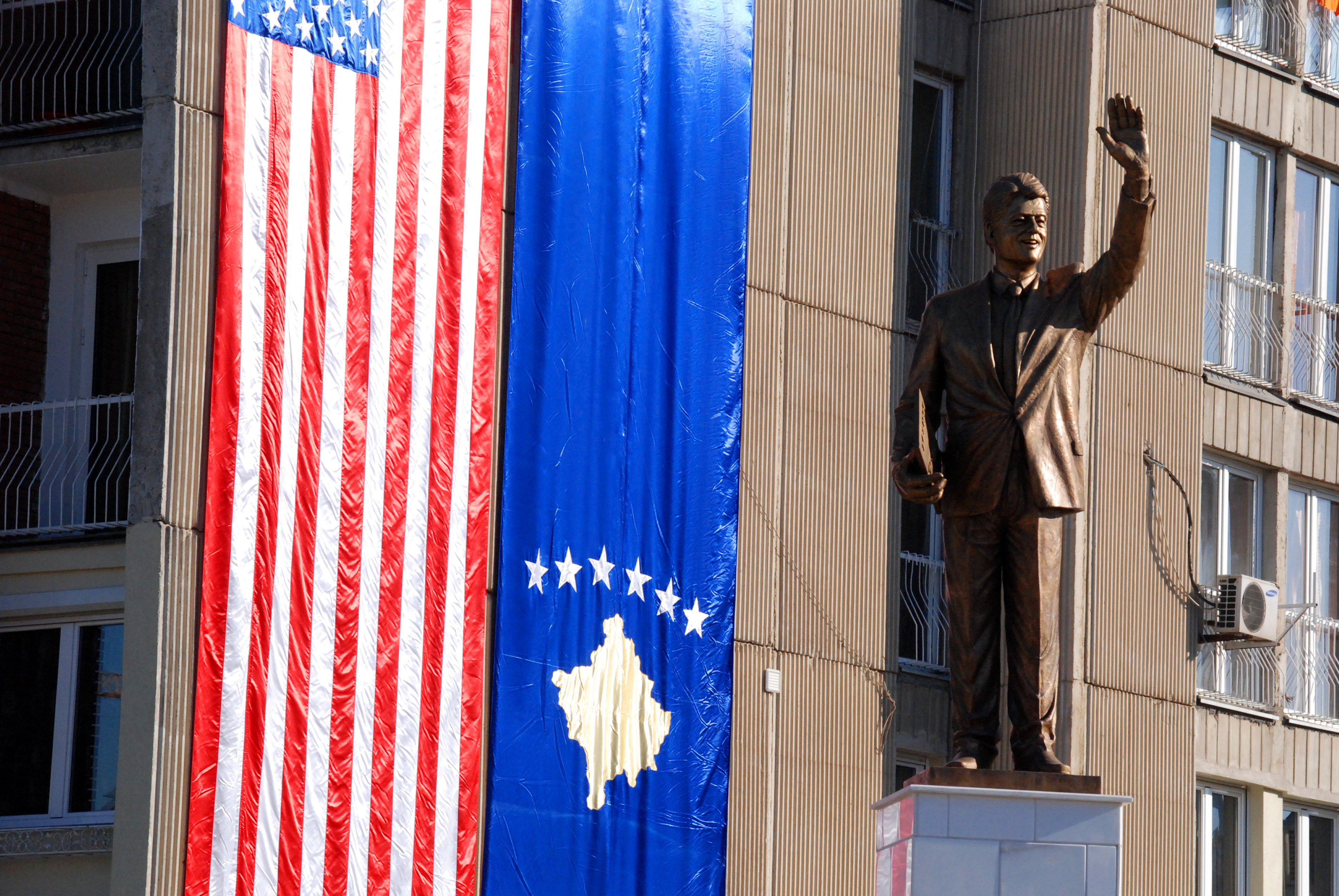 Statue of Bill Clinton in Pristina/Kosovo. photo: Arian Selmani